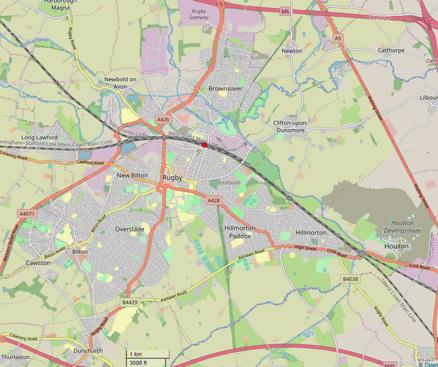 Map of Rugby, Warwickshire. This map may be incomplete, and may contain errors. Don't rely solely on it for navigation.